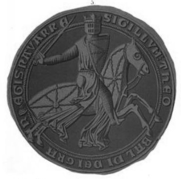 Theobald II of Navarre